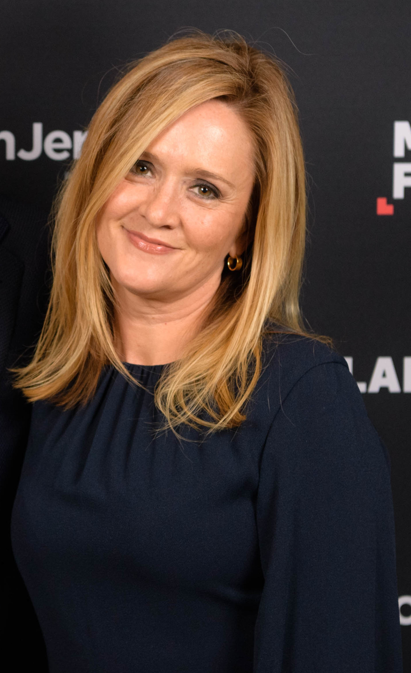 photo by “Neil Grabowsky / Montclair Film”